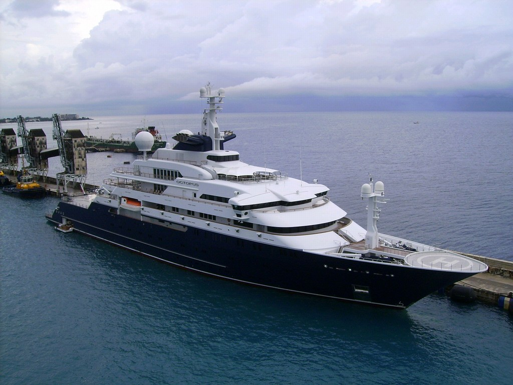 This is a picture of the largest yacht "Octopus". It is taken from the cruise ship "Carnival Legend" on Dec 2nd, 2006. Peter Sleeckx has taken the picture.